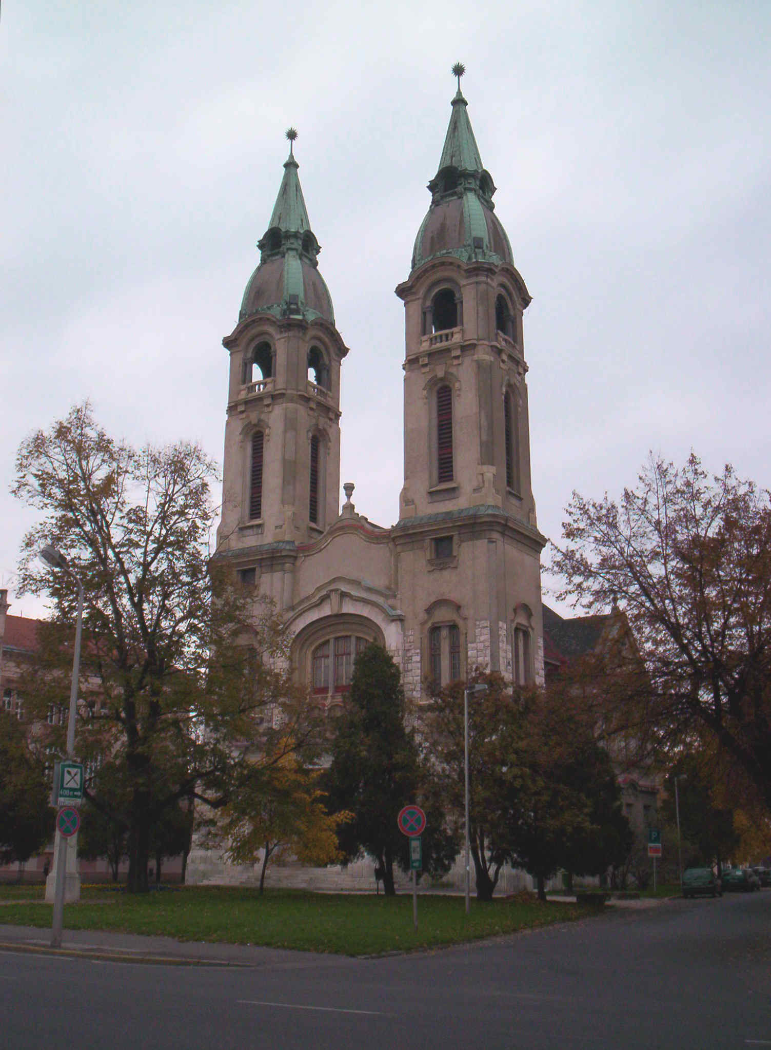 The Calvinist Church in Pápa, Hungary A pápai református templom